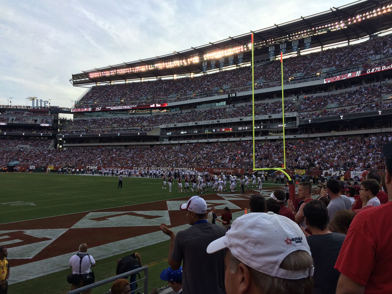 The Temple Owls beat the Penn State Nittany Lions 27-10 for the first time since 1941 on September 5th, 2015